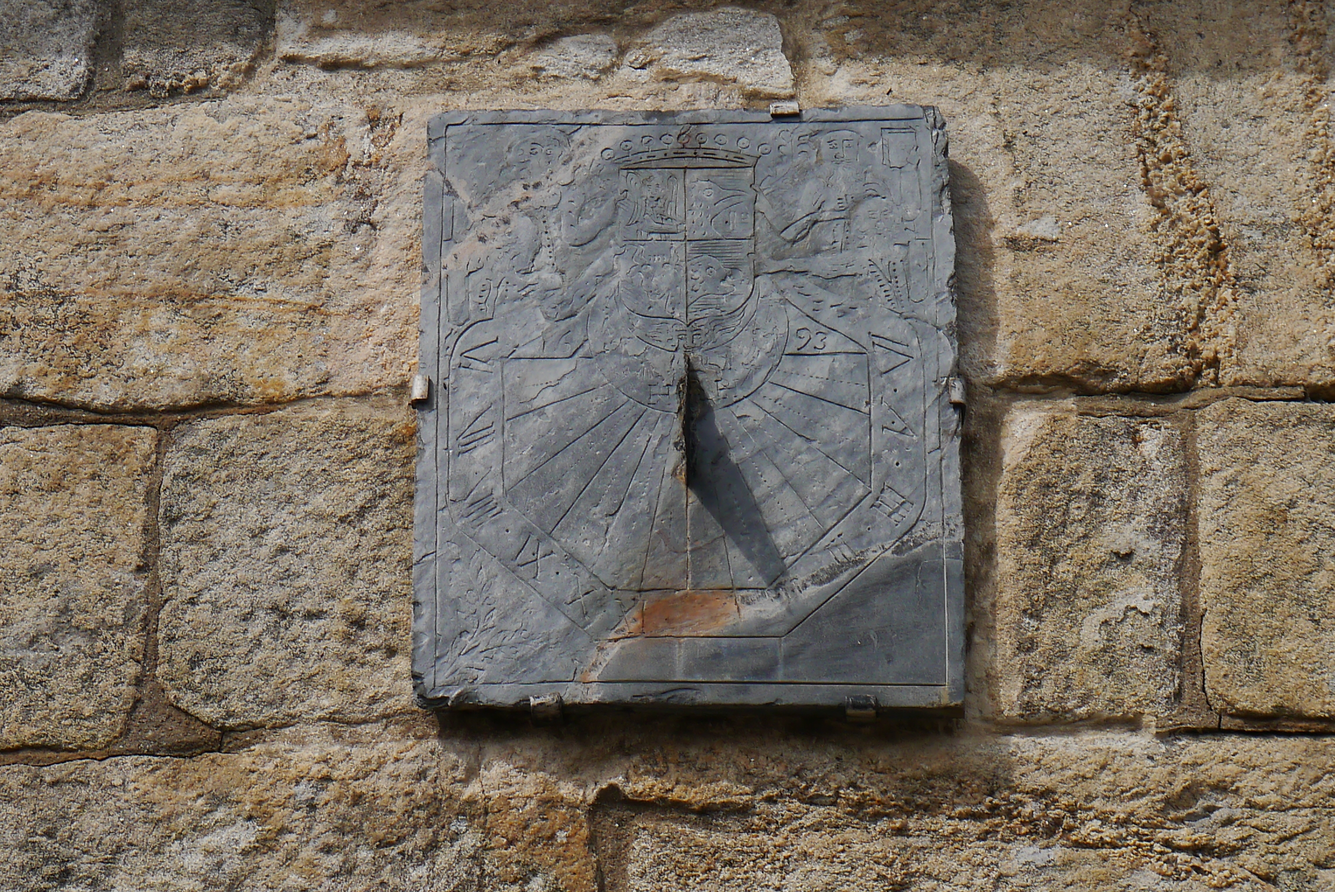 Hamlet of Kervalet, Batz-sur-Mer, Loire-Atlantique, France. South-facing vertical sundial on the wall of the chapelle Saint-Marc.